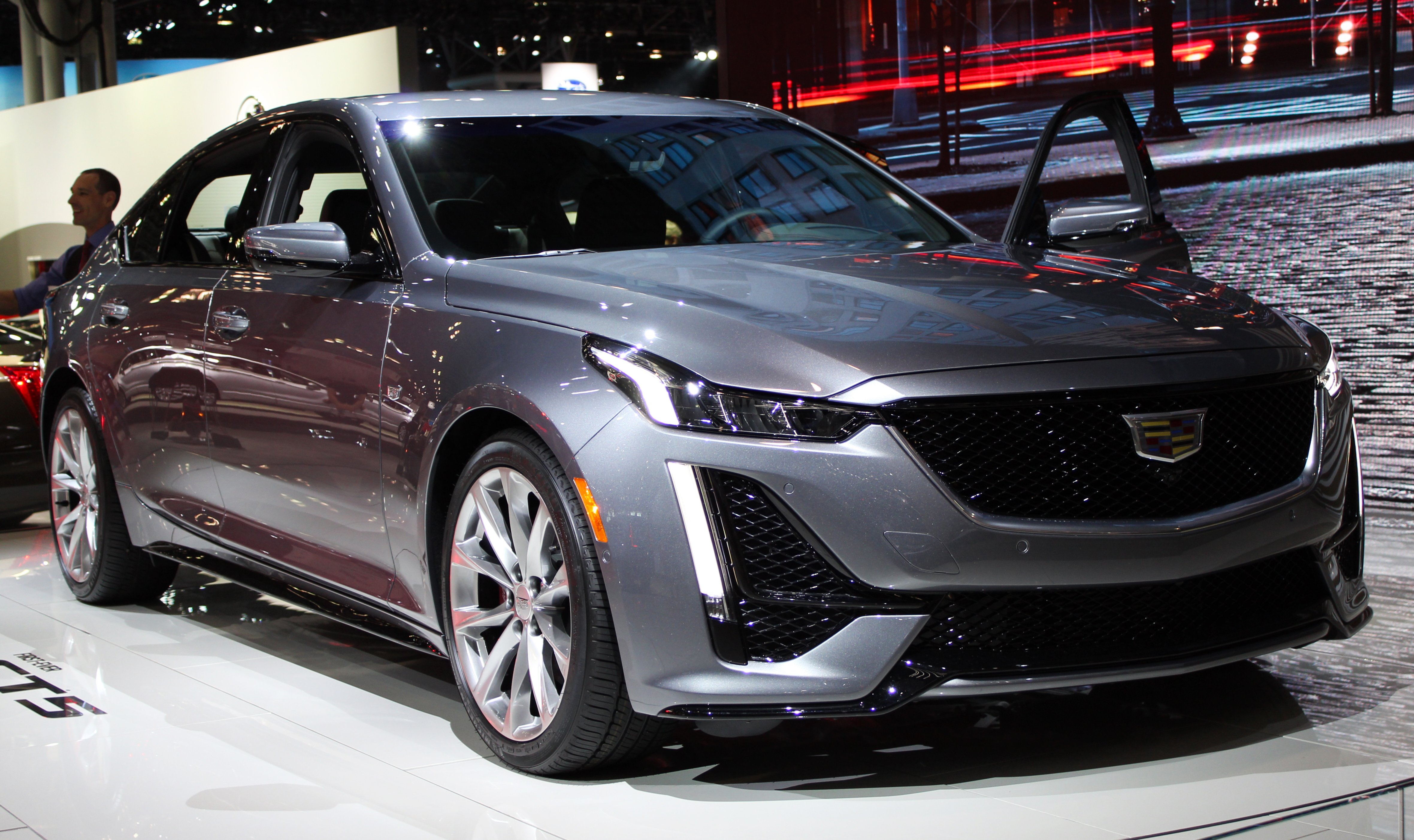 A 2019 Cadillac CT5 photographed during the 2019 New York International Auto Show, in Hudson Yards, Manhattan, NYC